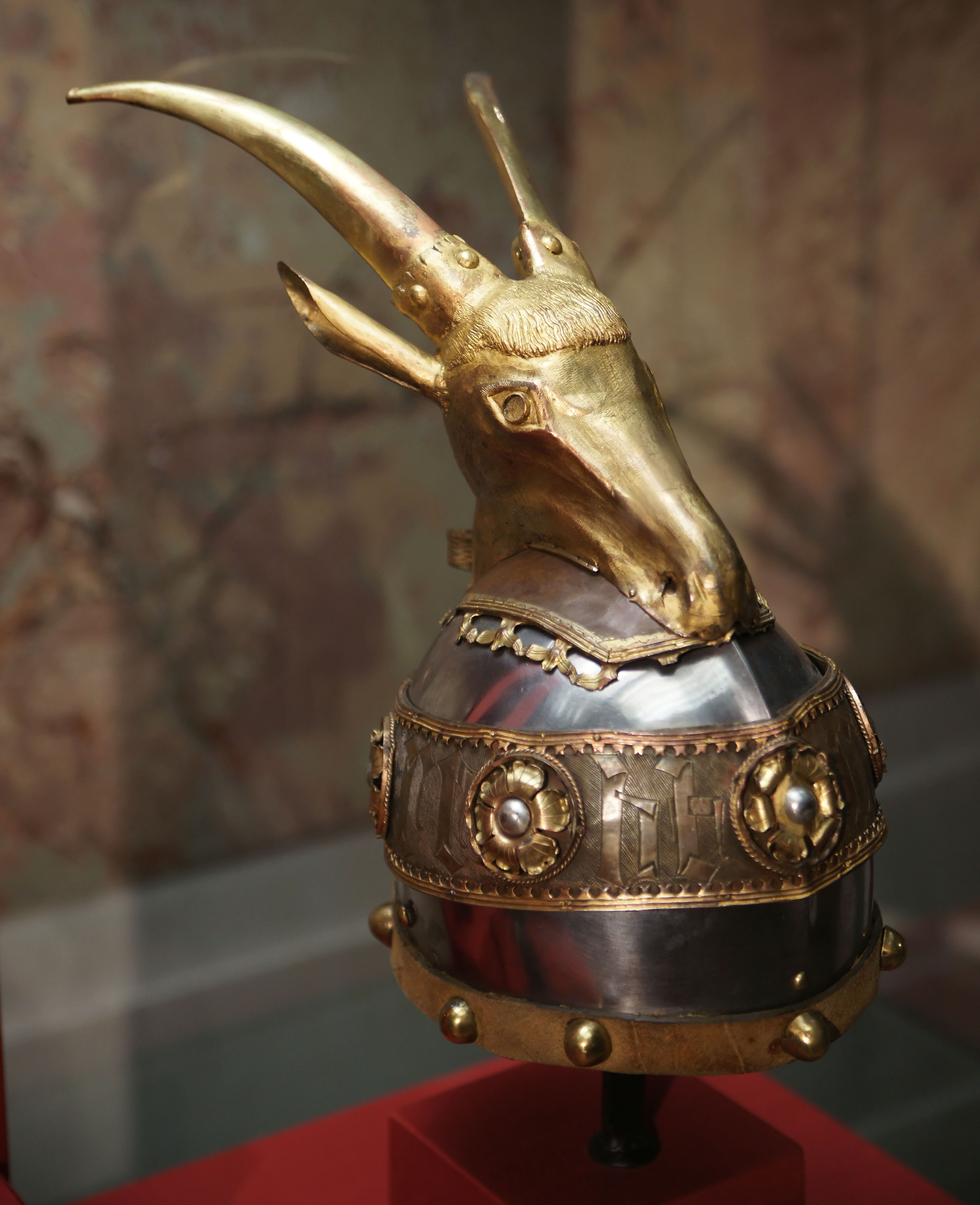 Decorative helmet of Gjergj Kastrioti Skanderbeg, c. 1460. Bought for Skanderbeg by Archduke Ferdinand II.